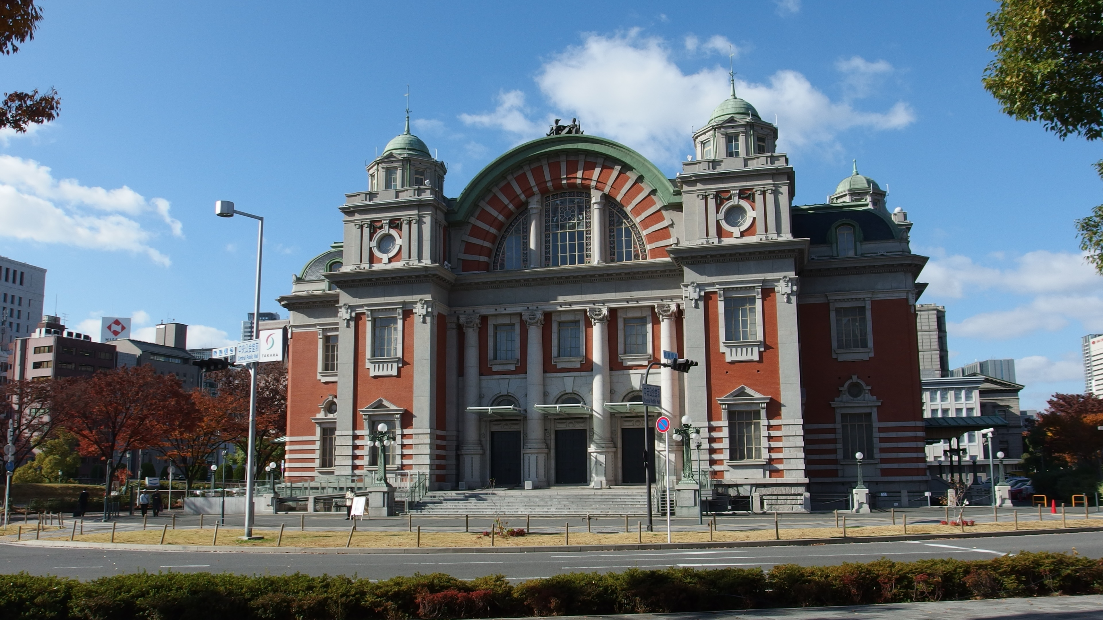 Osaka Central Public Hall, Osaka, Osaka Prefecture, Japan